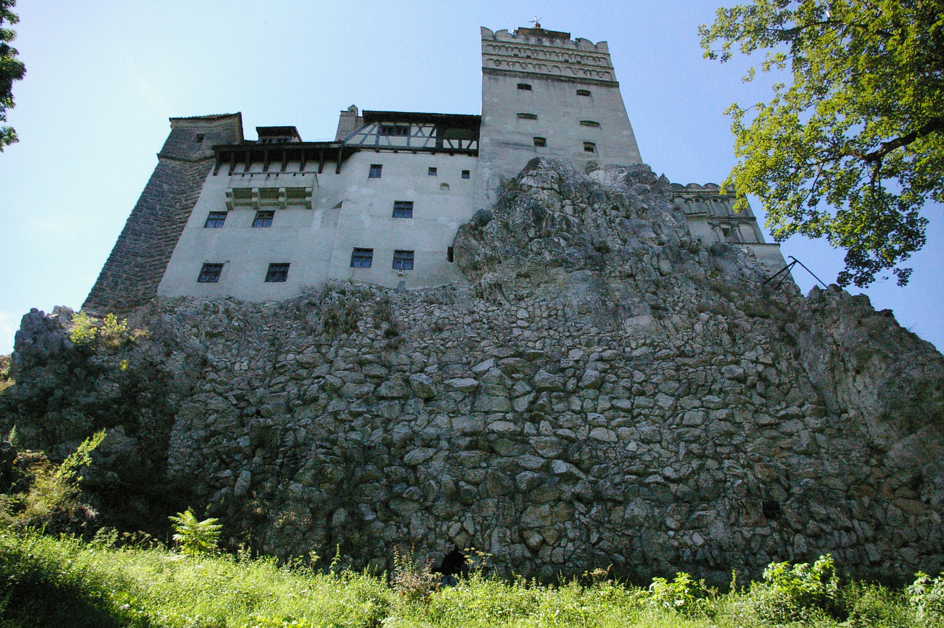 Courtesy of